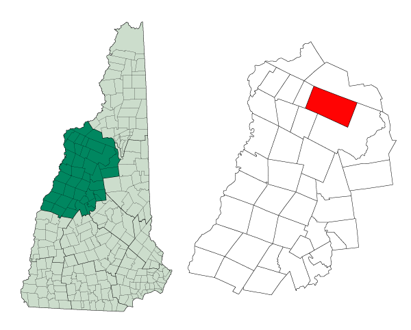 Map of a municipality in Belknap County, New Hampshire